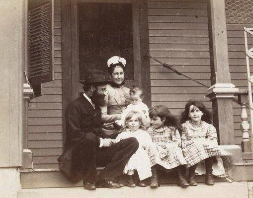 Adolphus Washington Greely and his family in 1887